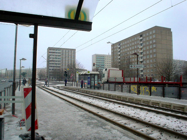 Tram stop "Am Klinikum", Lobeda-Ost, Jena, Germany.